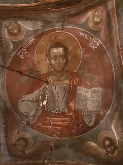 Archangels Monastery Kousko Fresco